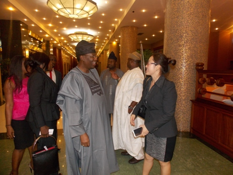 Otunba Gbenga Daniel at a dinner in February, 2015